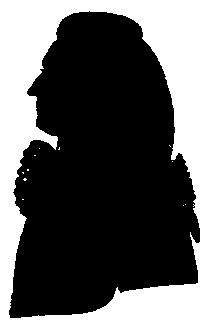 Silhouette of Diderich von Cappelen (1734-1794), Skien, Norway